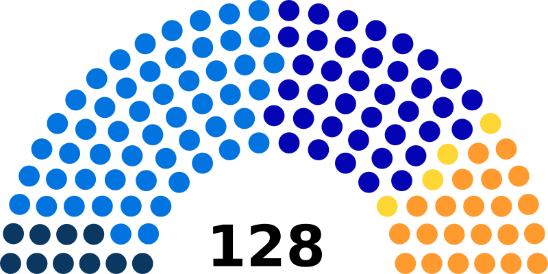 Seats diagramme of Swiss National Council (1866)